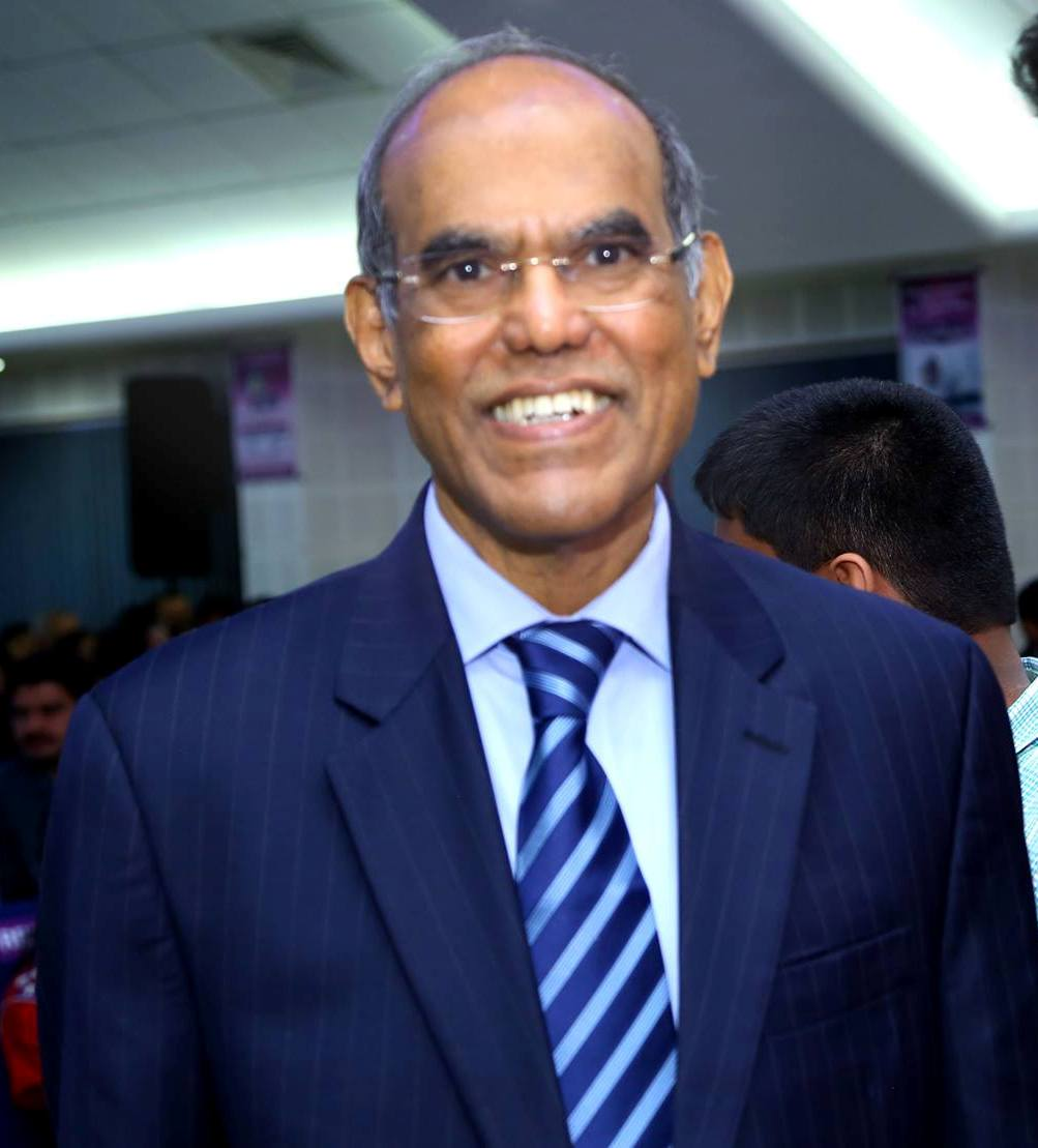 Potriat